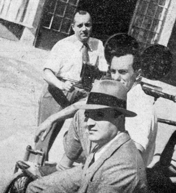 Kiki film 1934 - foto del set durante le riprese del film, con il regista Raffaello Matarazzo